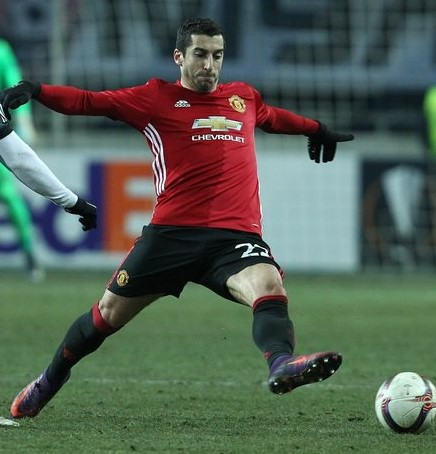 Henrikh Mkhitaryan